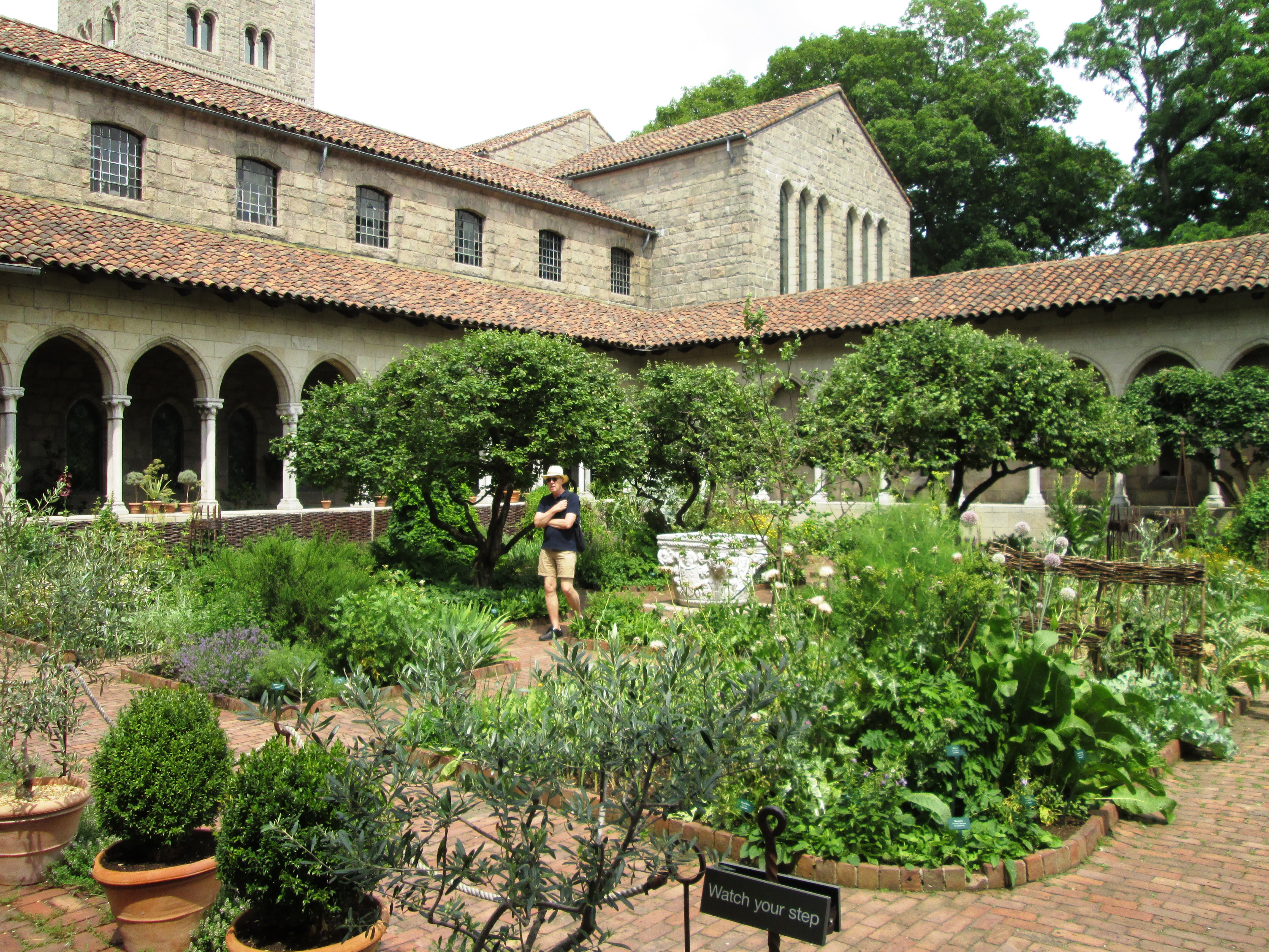 The Bonnefont Cloister in The Cloisters museum of the Metropolitan Museum in Fort Tryon Park, Manhattan, New York City